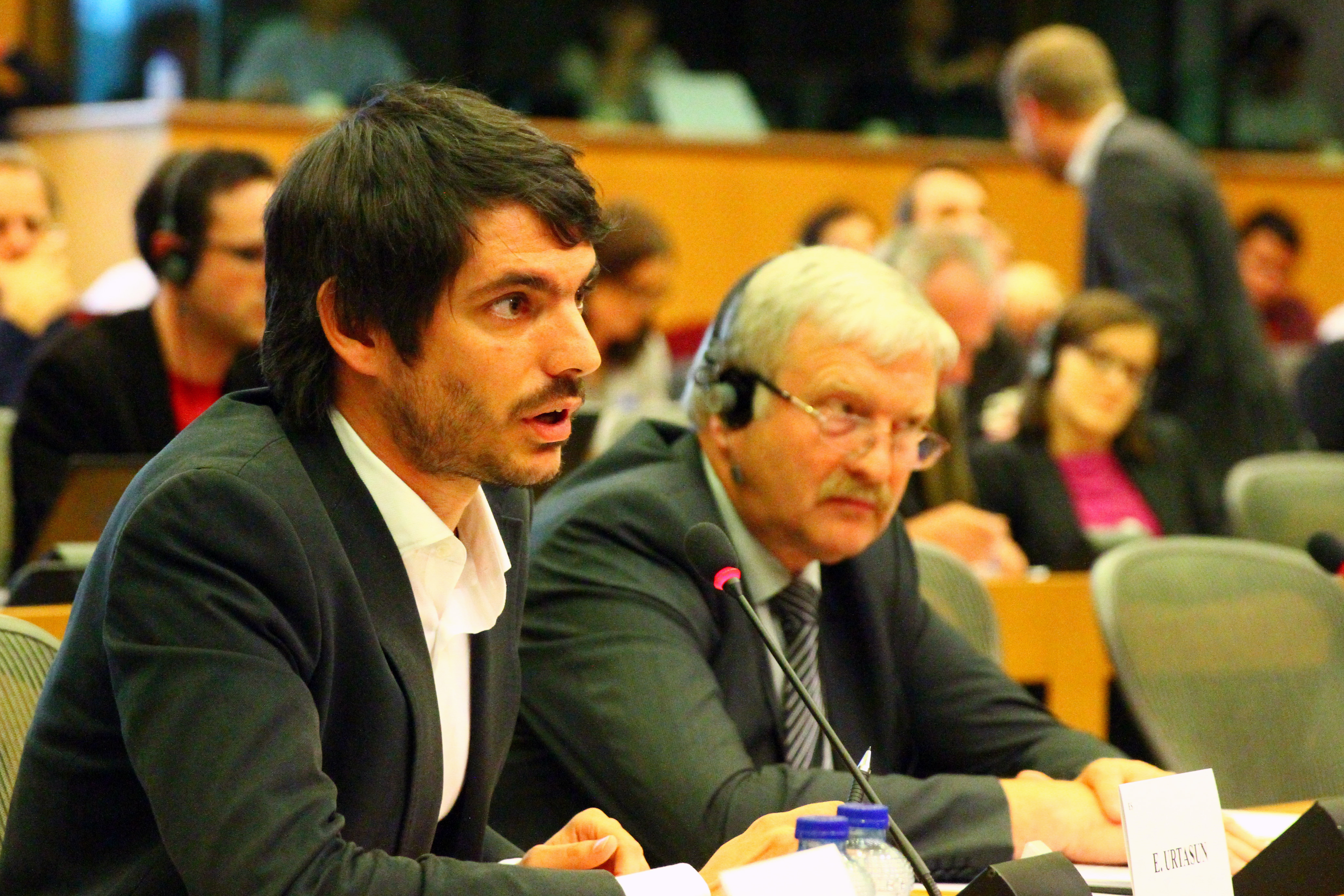 Ernerst Urtasun at a session with Jean-Claude Juncker of the Greens/EFA parliamentary group